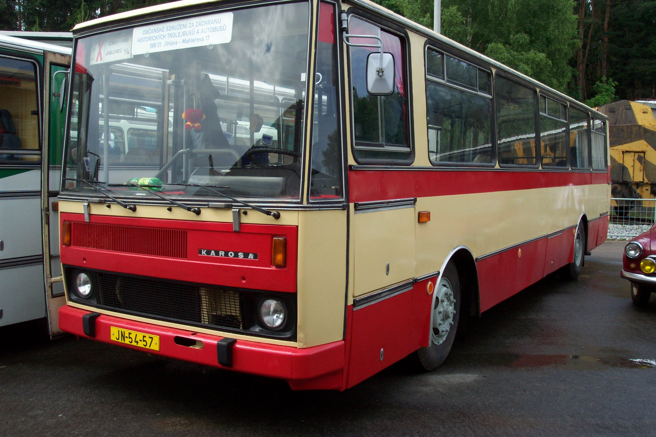 Historic bus 1986 Karosa B 731 in VTM Lešany museum